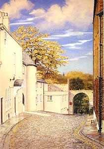 Painting of St Cuthbert's Society buildings in South Bailey, Durham. The original painting is in the Senior Common Room of the college.